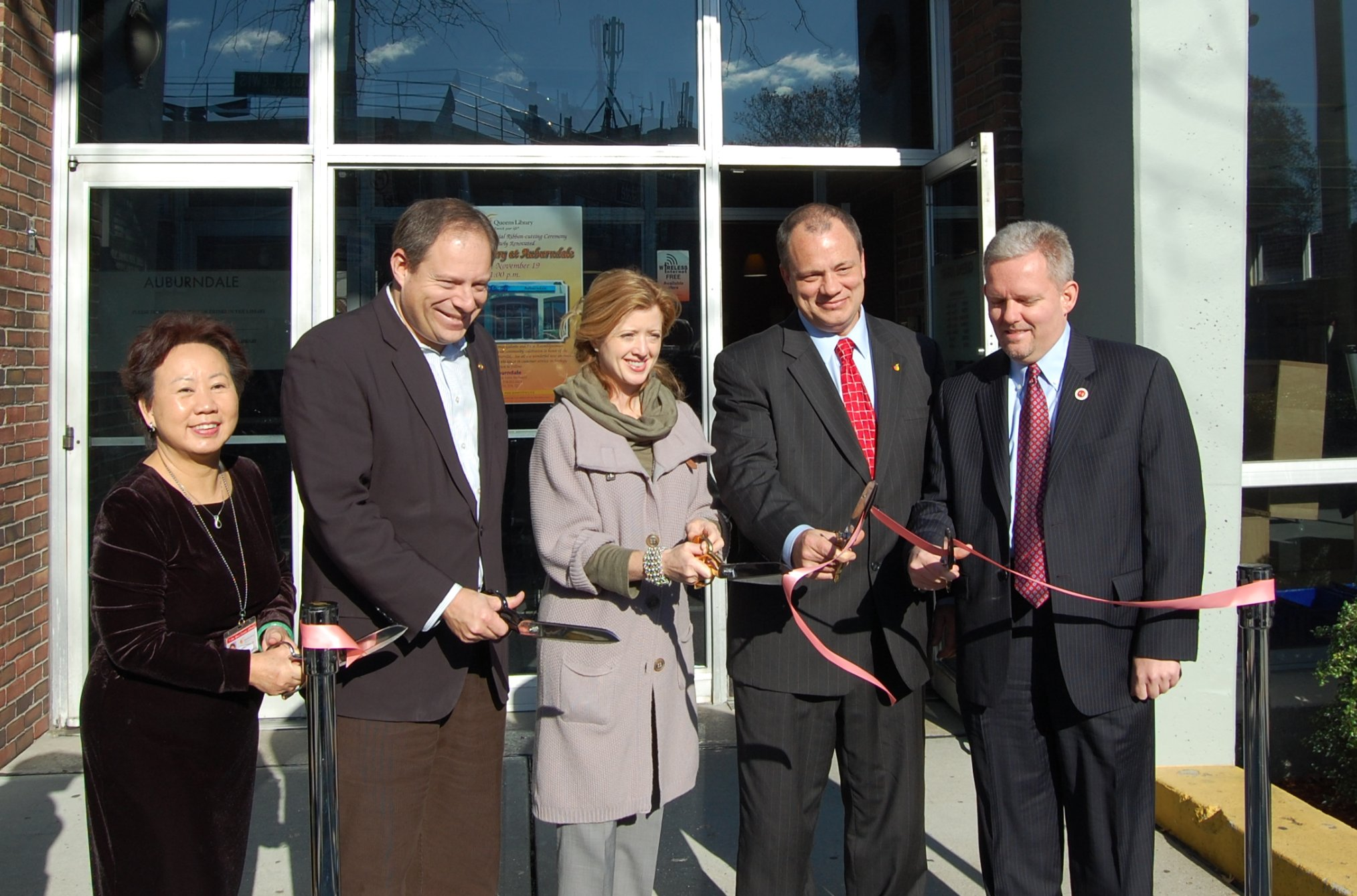 Ribbon Cutting Ceremony for Auburdale Library, with Assembly member Ann-Margaret Carrozza, Director of Queens Libraries Tom Galante and Councilman Jimmy Van Bramer.